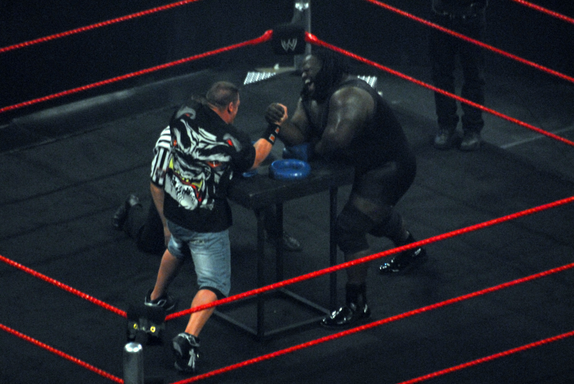 John Cena and Mark Henry in an arm wrestling match.